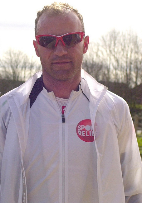 Alan Shearer in Banbury during a break from a marathon cycle mission.